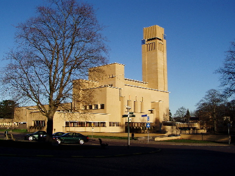 Hilversum Town Hall (Raadhuis)